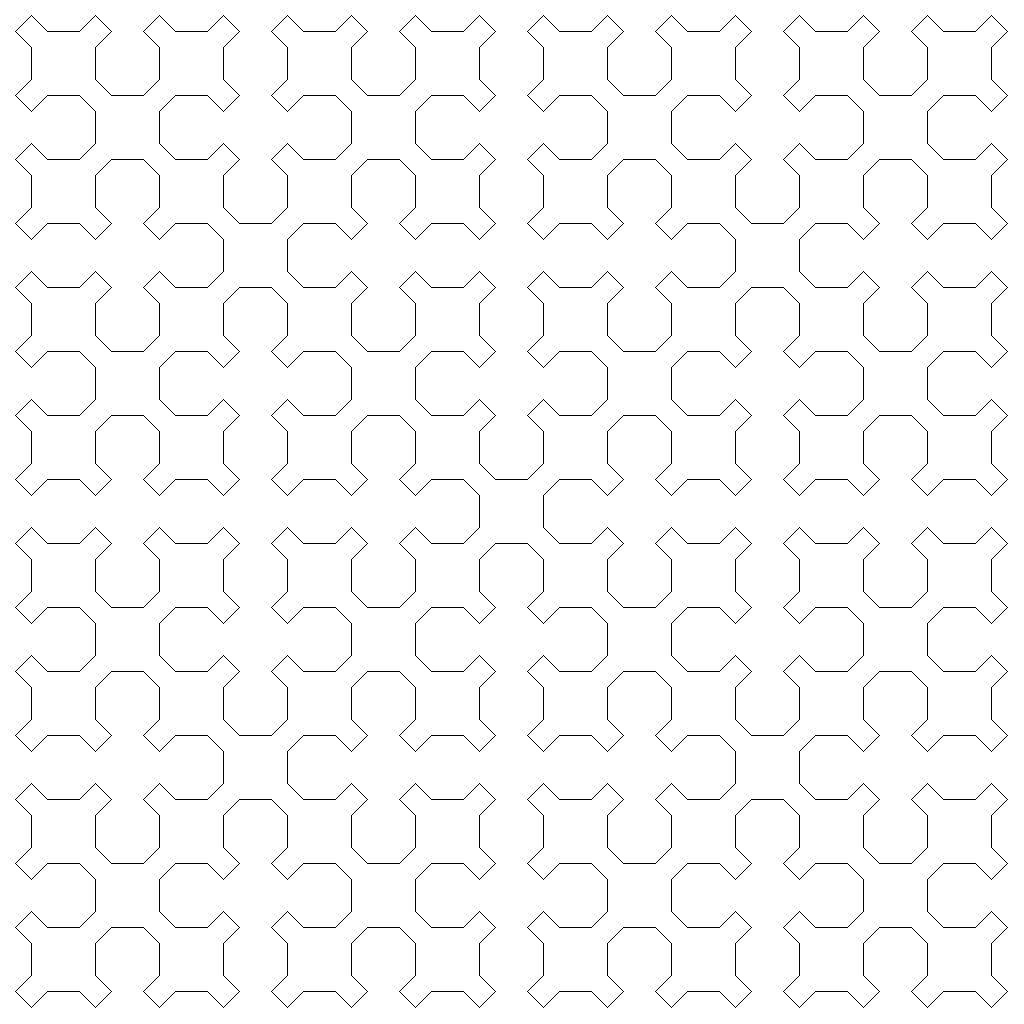 Sierpinski Curve L4